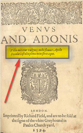 Frontcover of Shakespeares first work Venus and Adonis, 1693 (here 1694) two latin lines (7th and 8th last line) on the front cover (see arrow !) are from the orginial latin version of All Ovids Elegies (I/15 death of the poet), which Christopher Marlowe fully translated in earlier years.